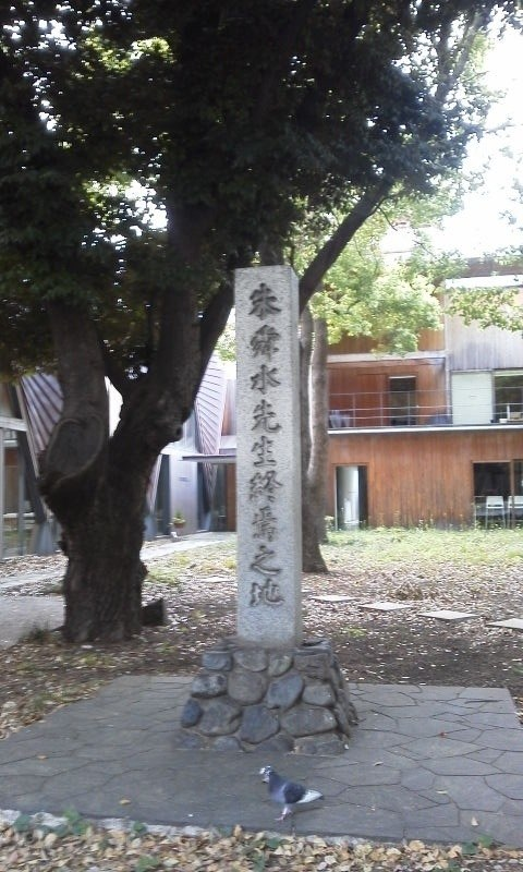 Zhu Shunshi's monument in Tokyo University